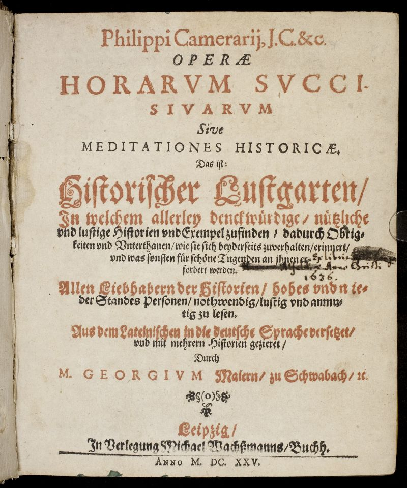 Title page of Philipp Camerarius: Historischer Lustgarten: In welchem allerley denckwirdige / nuͤtzliche und lustige Historien und Exempel zu finden / dadurch Obrigkeiten und Unterthanen / wie sie sich beyderseits zu verhalten erinnert / und was sonsten für schoͤne Tugenden an ihnen erfodert werden / Allen Liebhabern der Historien / hohes und nieder Stands Personen / nothwendig / lustig und anmutig zu lesen / Auß dem Lat. in die dt. Sprache versetzet / und mit mehrern Historien gezieret / Durch M. Georgium Maiern / zu Schwabach. Leipzig 1625−1630. Translated by Georg Maier (died 1575).